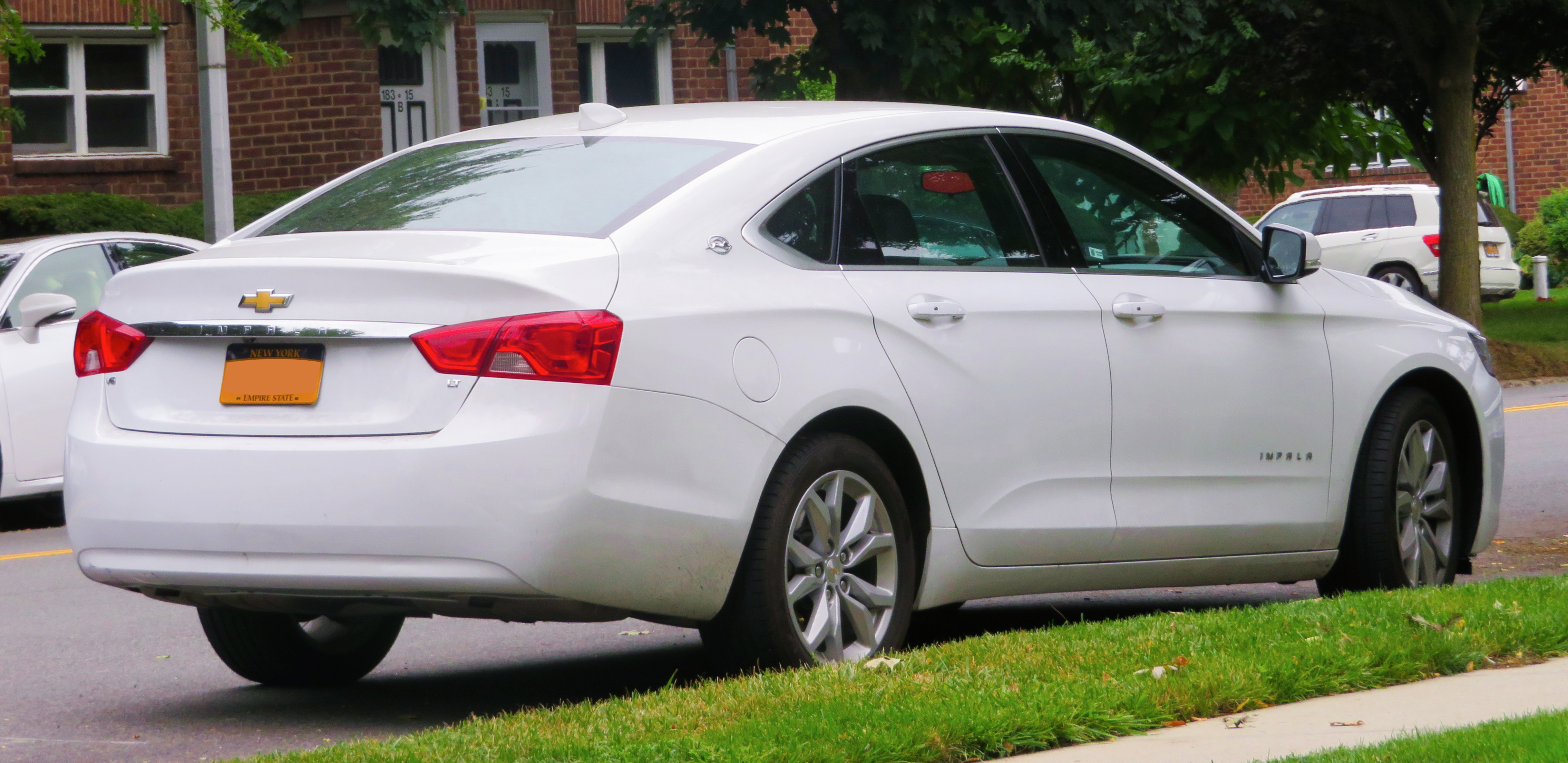 A 2018 Chevrolet Impala LT photographed in Queens, New York, USA